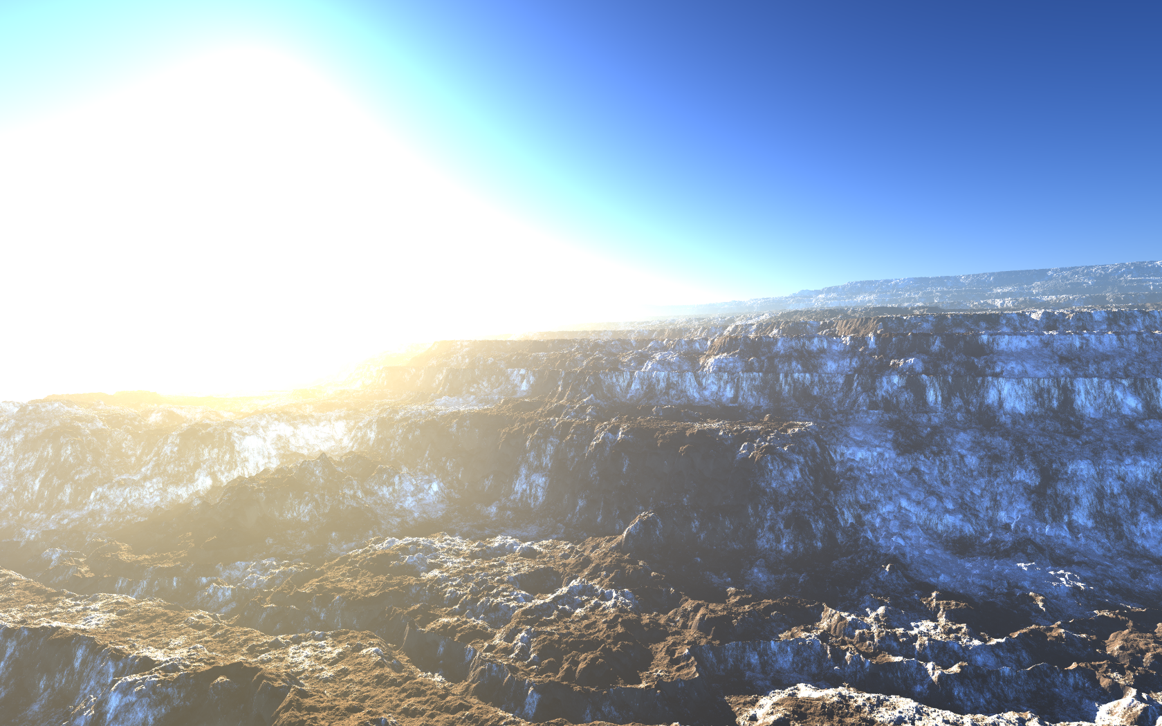 This image has been rendered with picogen, a terrain creation and rendering system.